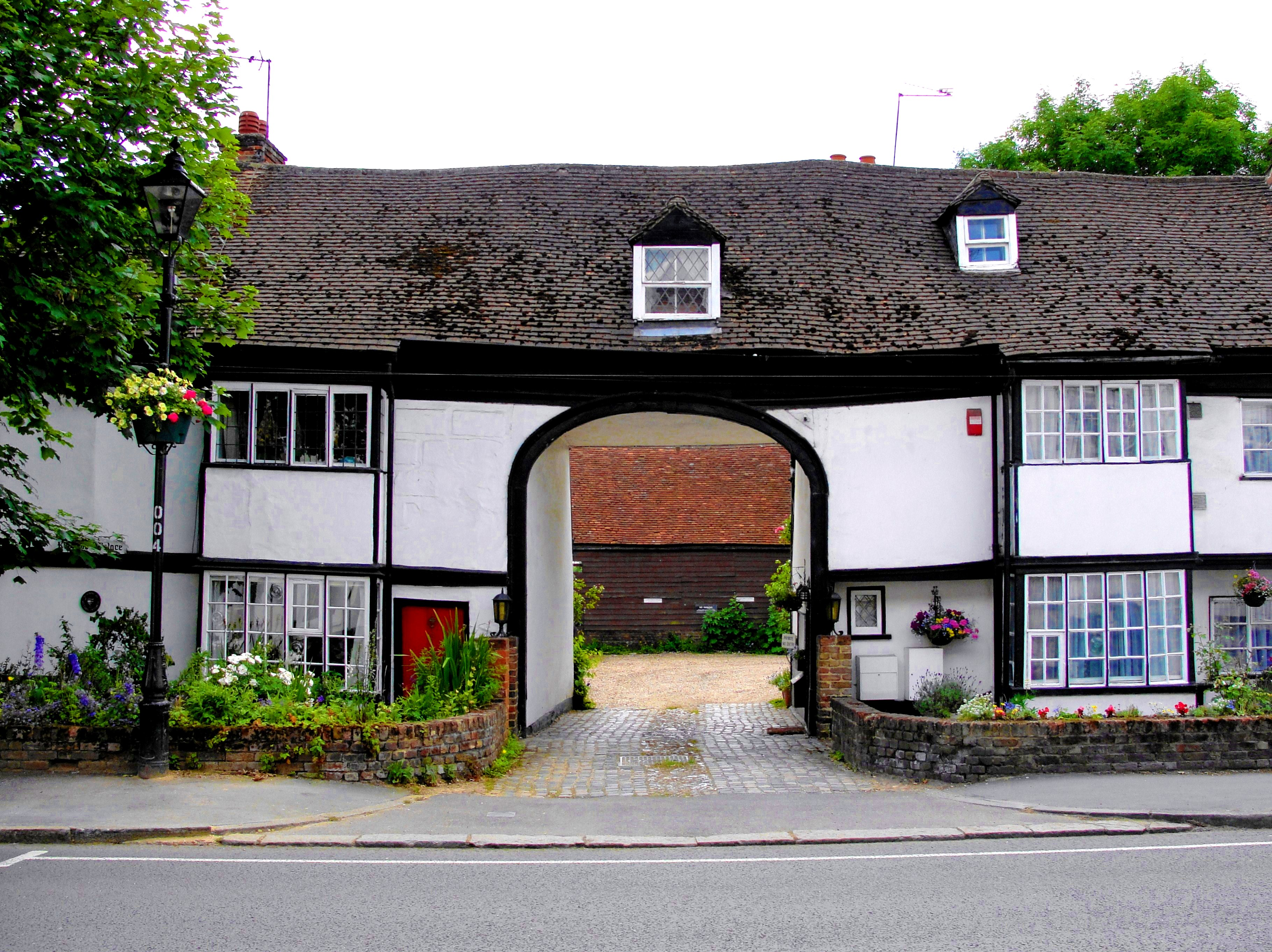 Gate in an old house in Colnbrook Village.